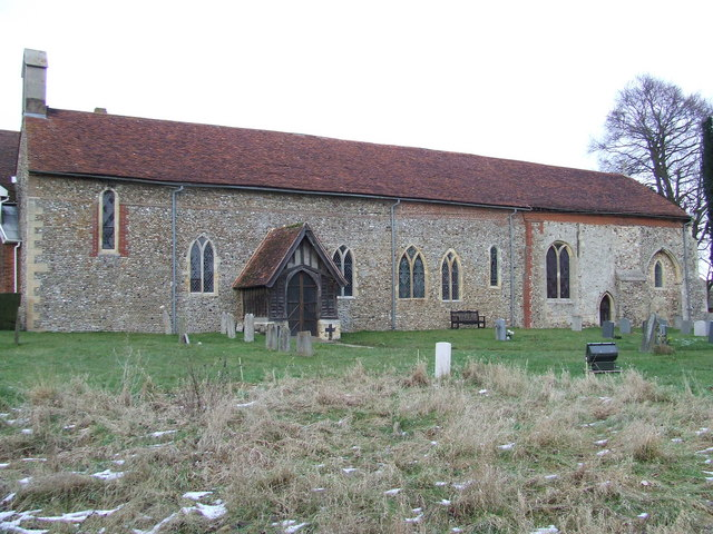 Church of St Mary & St Laurence in Great Bricett, Suffolk, England. A Grade I listed medieval church.